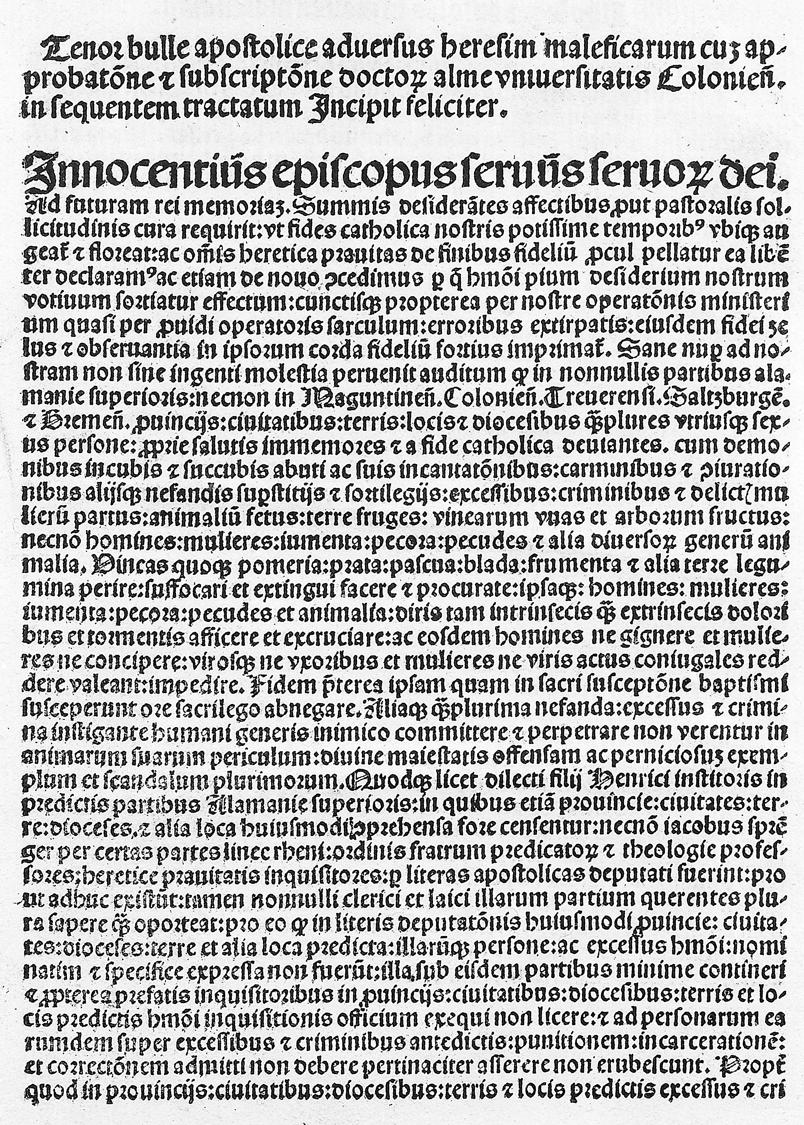 Malleus Maleficarum, Sig. iiv, The beginning of the Bull of Innocent VIII. Rare Books Keywords: Institor, H.; Sprenger , J.; Witchcraft